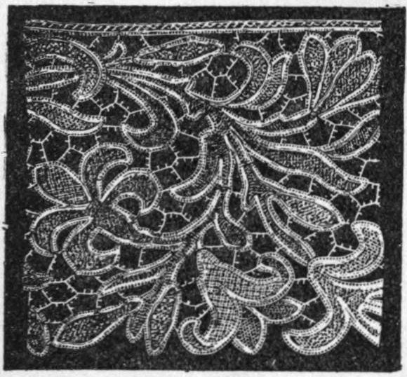 Fig. 51.--Border of Machine-made Lace in the style of 17th-century Pillow Guipure Lace. Illustration from 1911 Encyclopædia Britannica, article Lace.